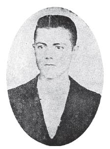 Portrait of Ilija Truchkov, member of IMARO and the terrorist group of the "Gemedjias", who blow up Thessaloniki in 1903.